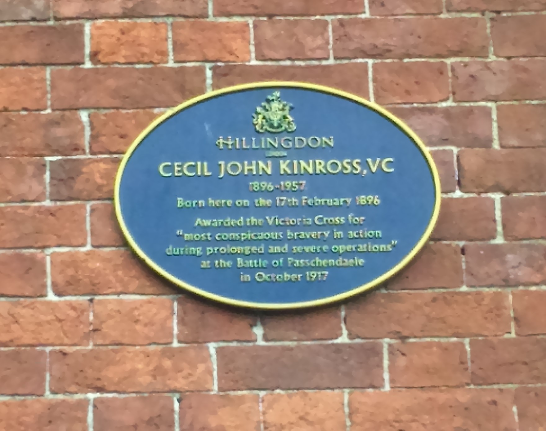 blue plaque at Dewes Farmhouse